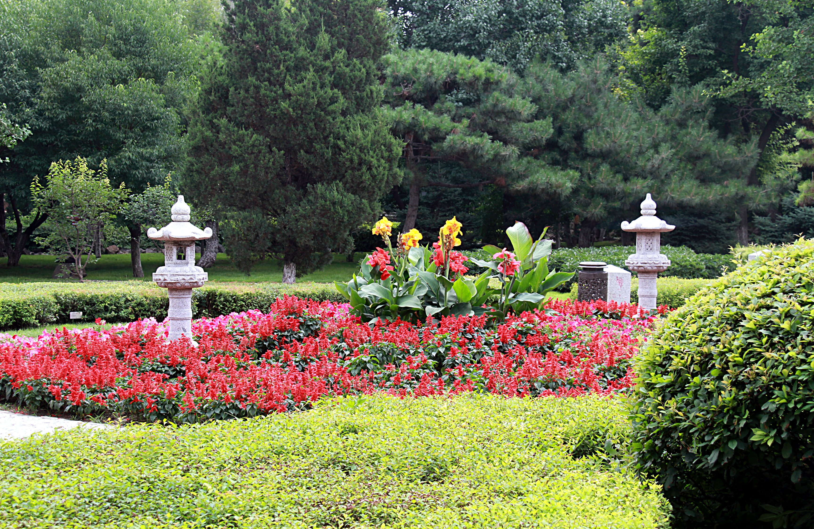 Photograph of the palace gardens in the Museum of the Imperial Palace of the Manchu State, Changchun, Jilin province, northeast China.